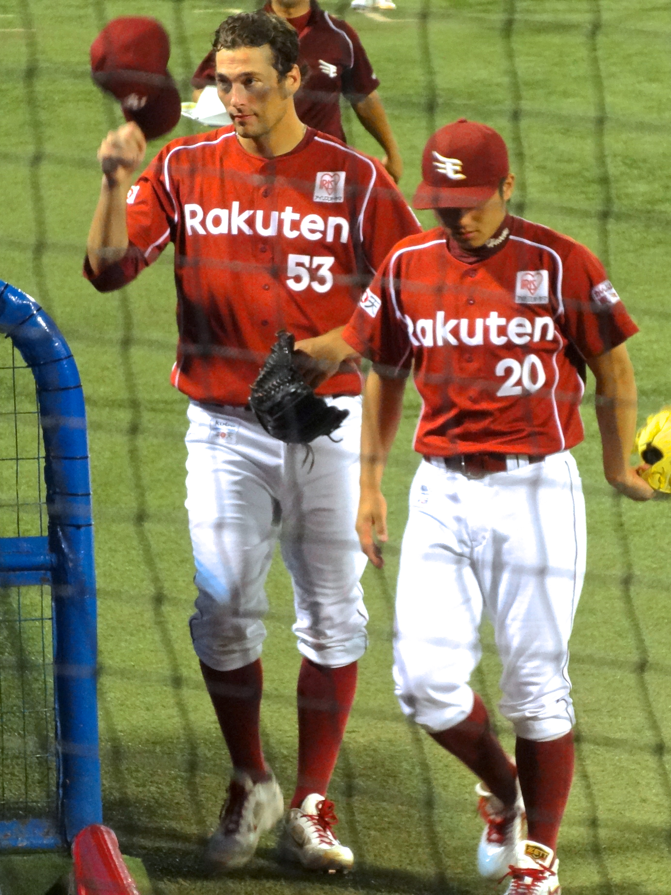 Jim Heuser (left) and Kohei Hasebe, pitchers of the Tohoku Rakuten Golden Eagles, at Meiji Jingu Stadium.